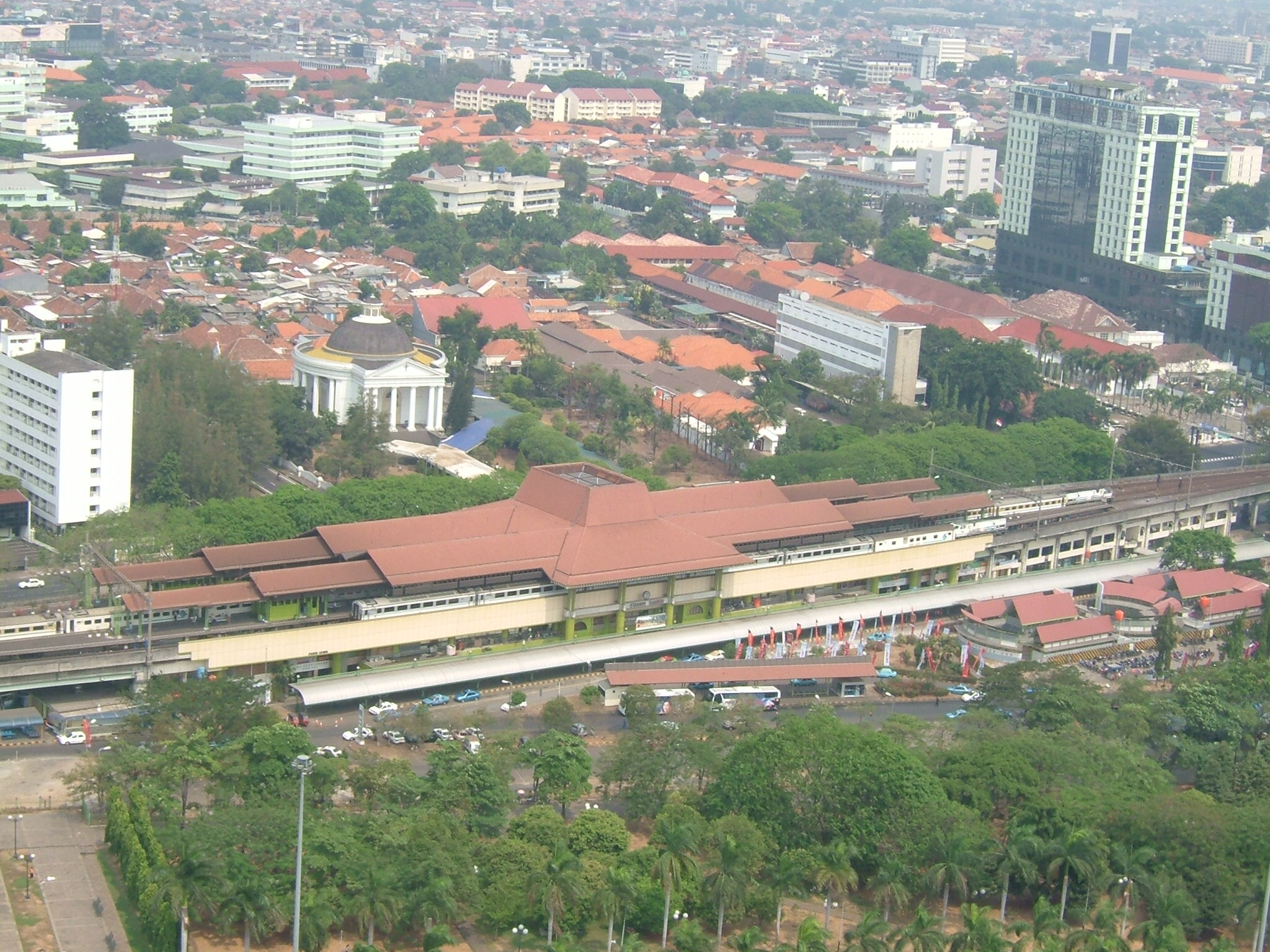 Gambir Station, Jakarta, Indonesia. Picture taken from Jakarta National Monument (Monas).